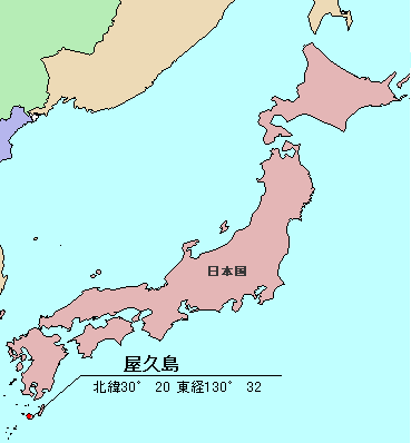 Located Map of Yakushima (Yaku_Island island) in Japan, from jp wiki.